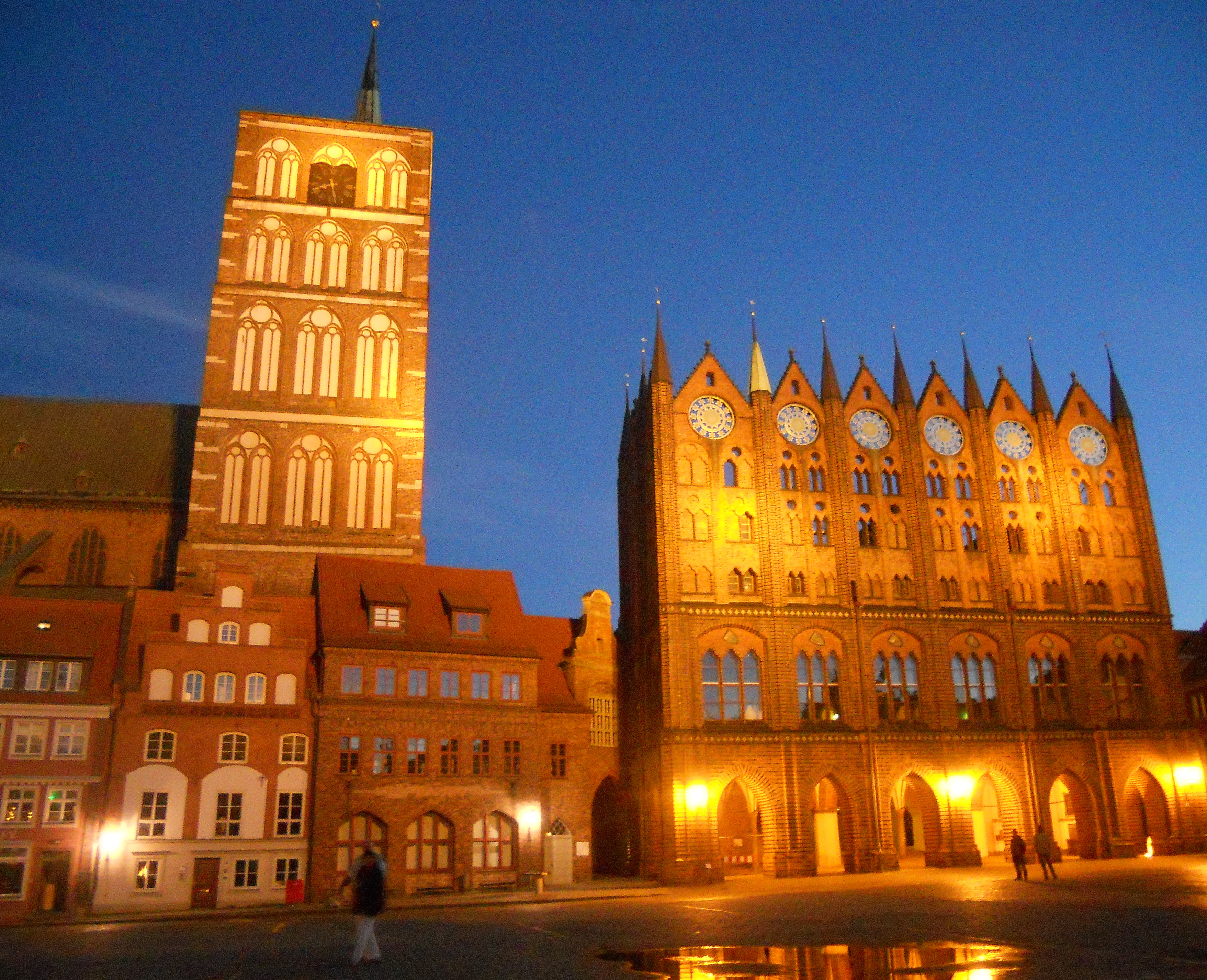 The Town Hall and St. Nicholas' Church